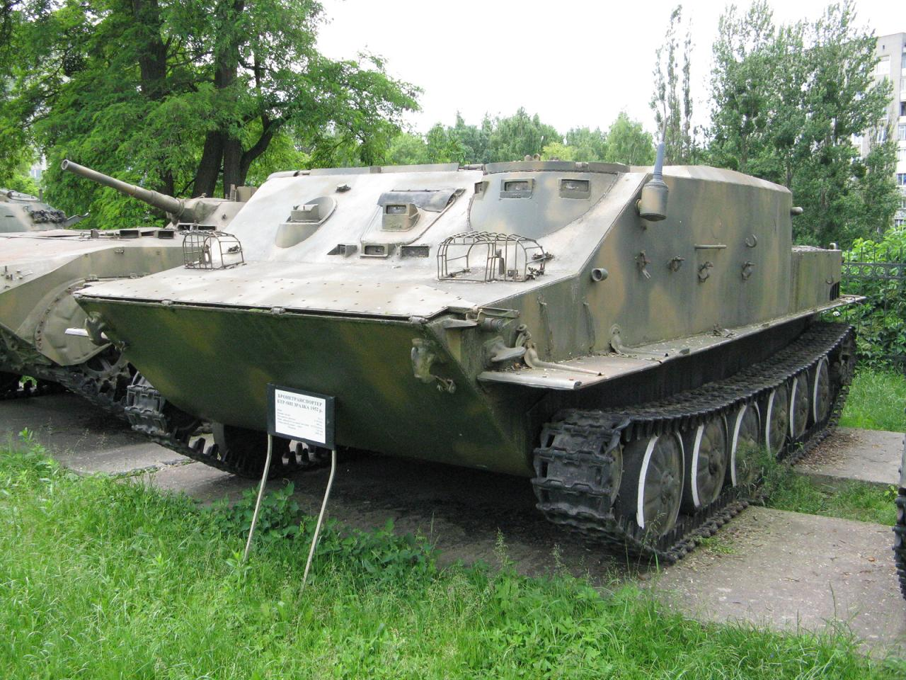 BTR-50, Lutsk, Volynskiy regional museum of Ukrainian army